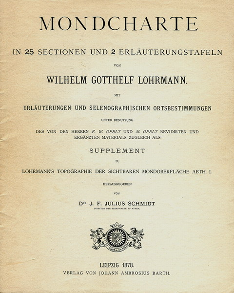 Titlepage of the maps of the Moon by Wilhelm Gotthelf Lohrmann edited by Johann Friedrich Julius Schmidt.